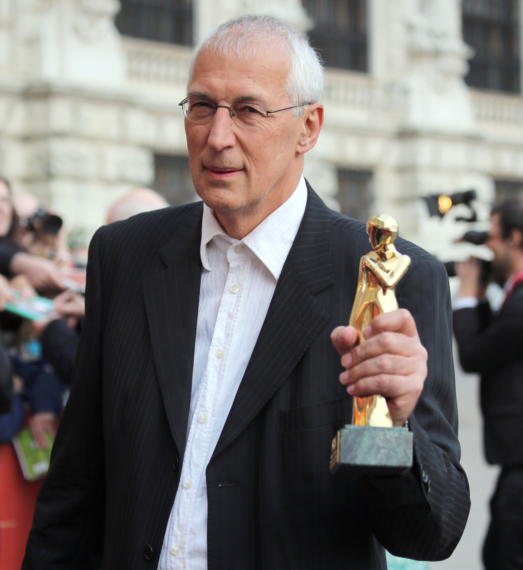 Josef Aichholzer at the Romy film awards (Hofburg Imperial Palace in Vienna)